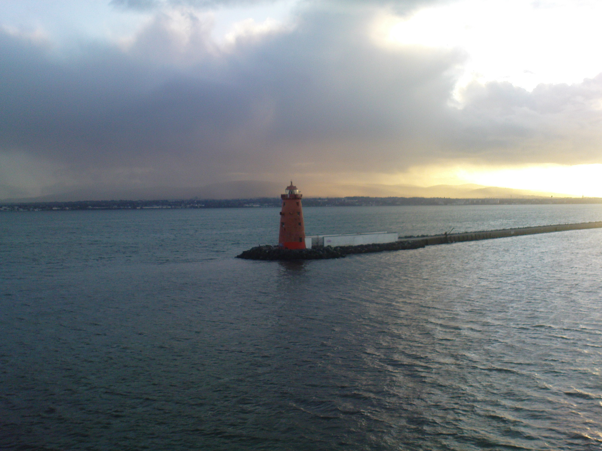 Poolbeg Lighthouse, Dublin Bay, Ireland.